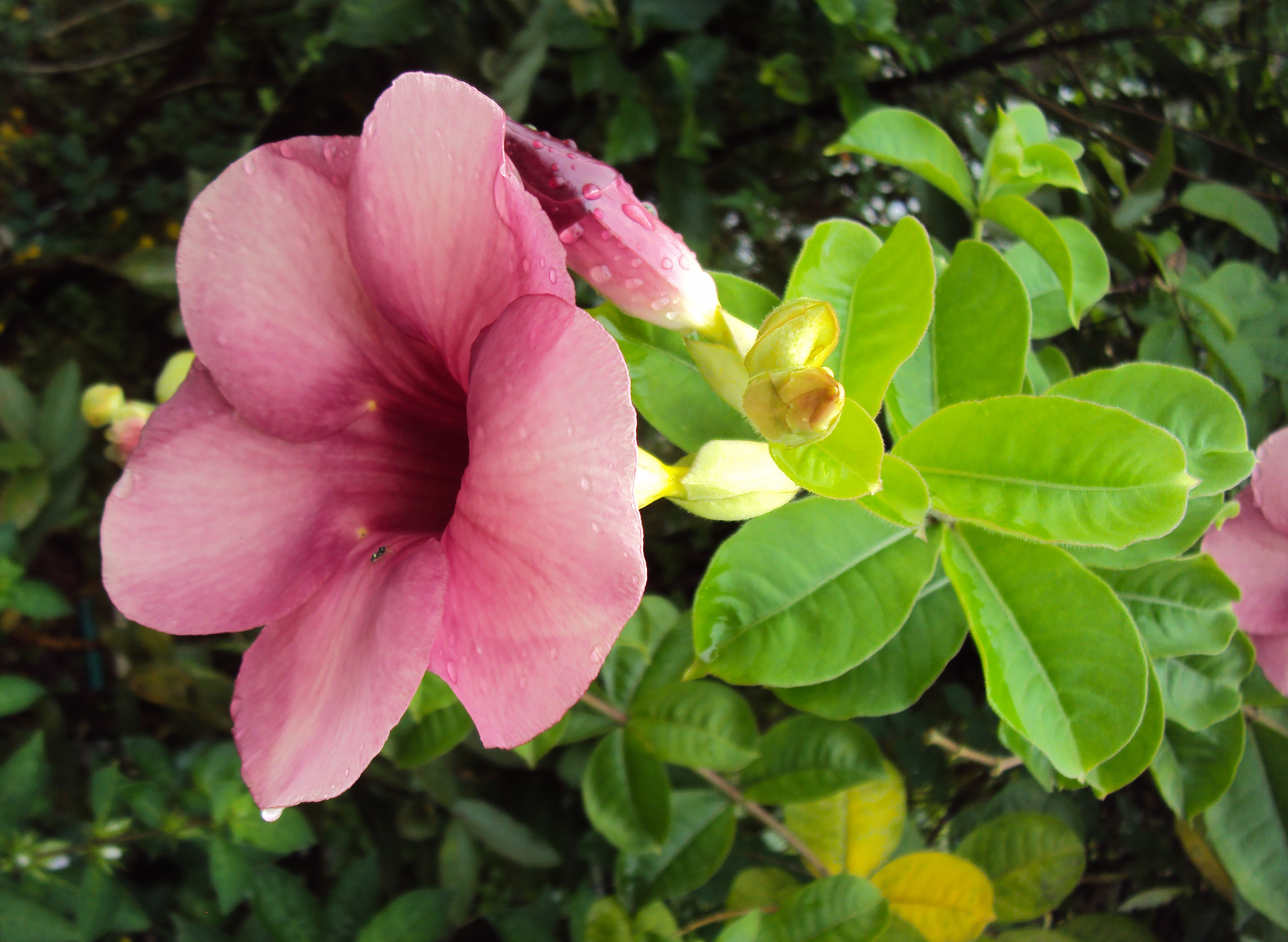 Allamanda blanchetii